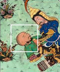 Painting of Shida in The Shahnama of Shah Tahmasp